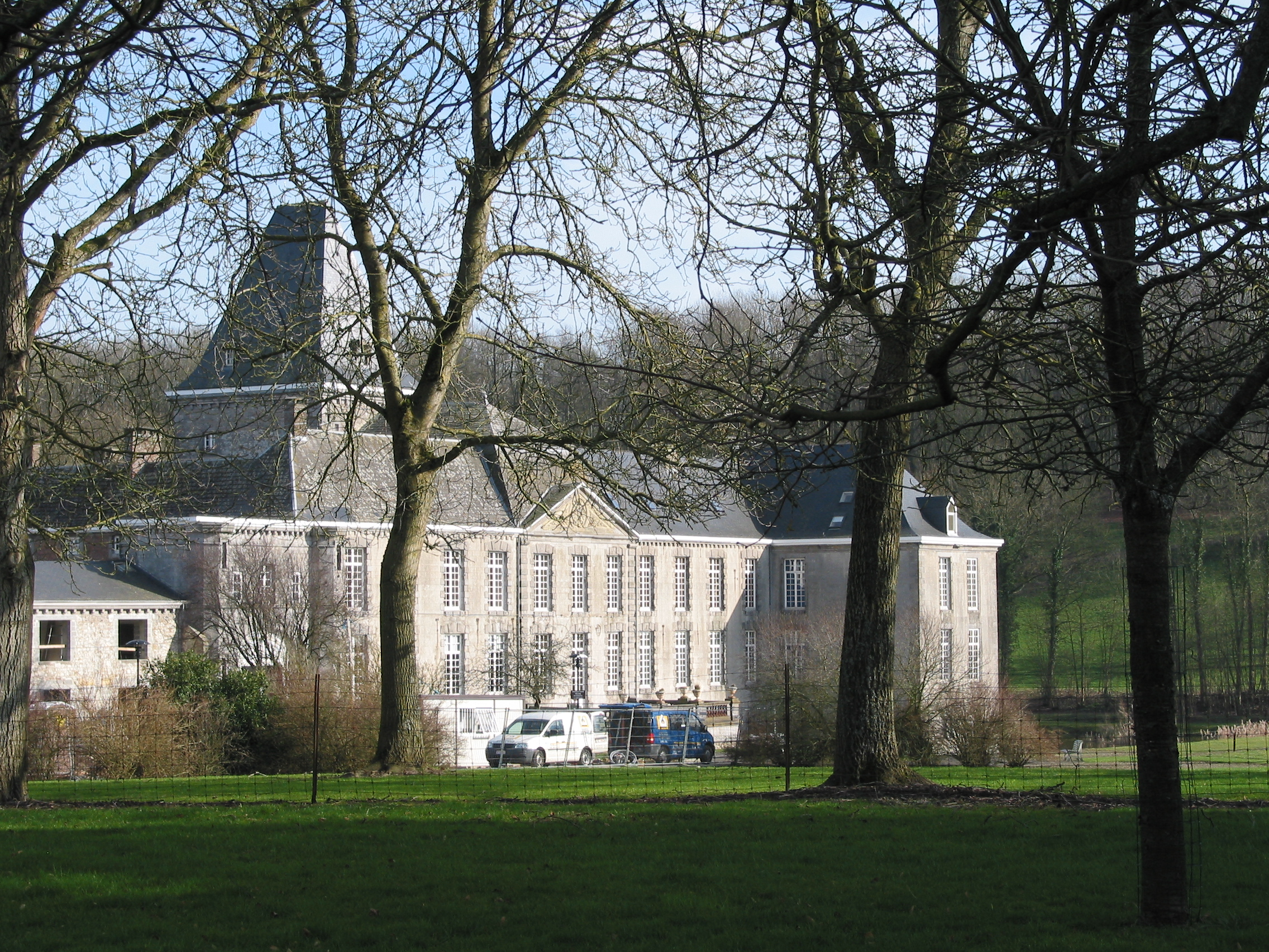 Ochain (Belgium), the castle (XV/XIXth centuries).